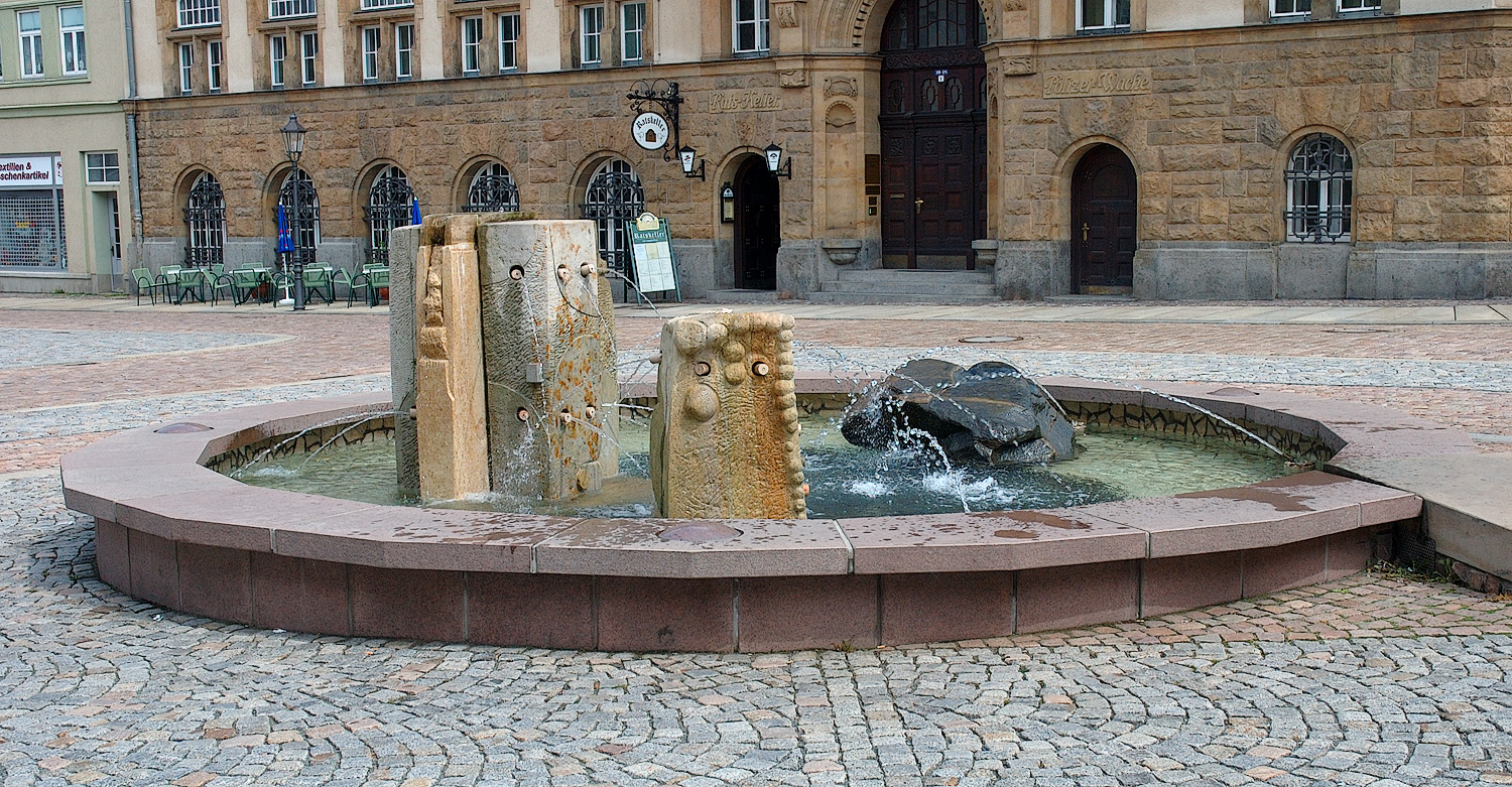 This image shows the fountain at the main market in Werdau (Saxony, Germany).